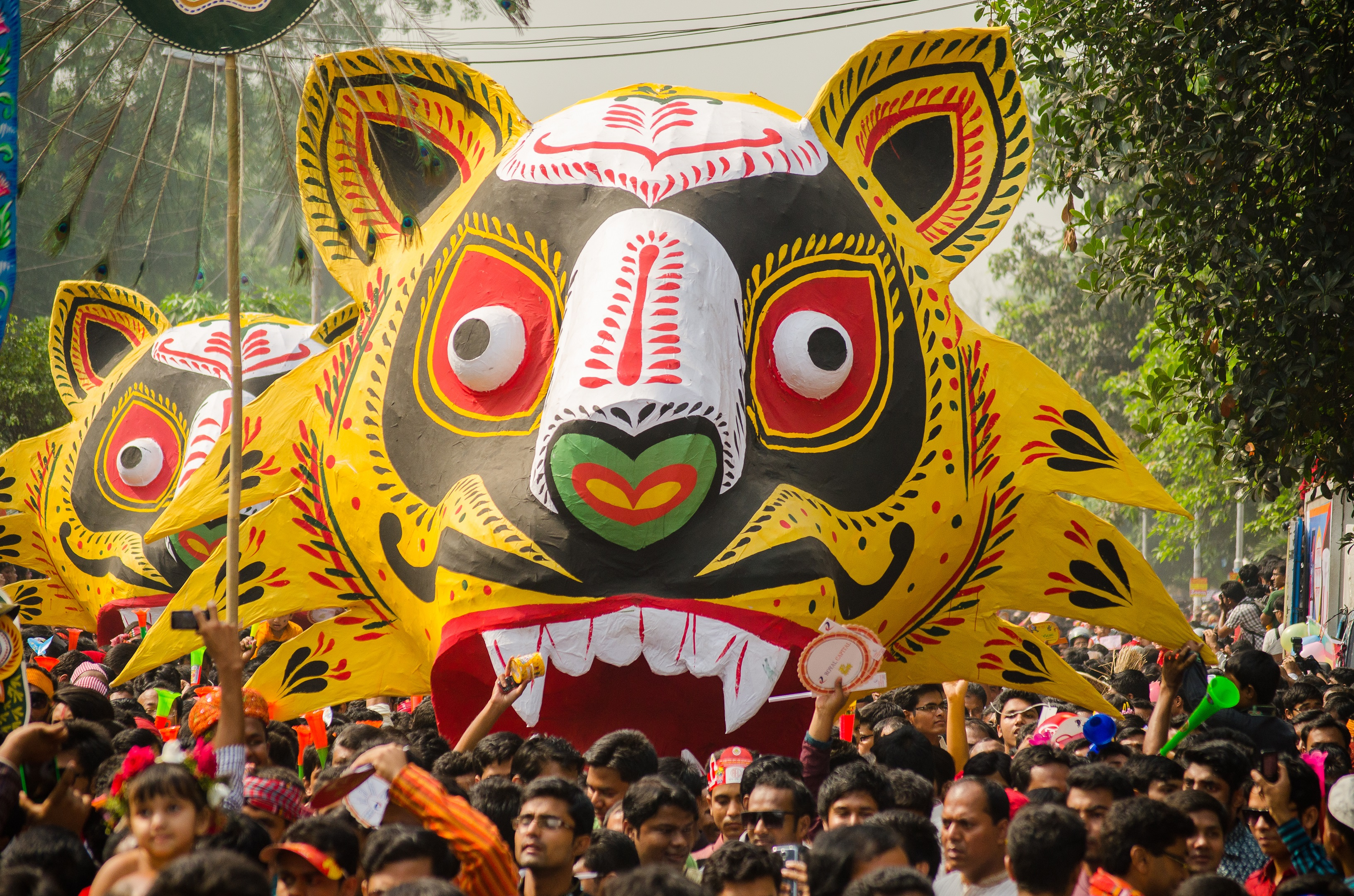 Mongol Shovajatra one of the traditional culture of Bangladeshi during Bengali New Year festival.